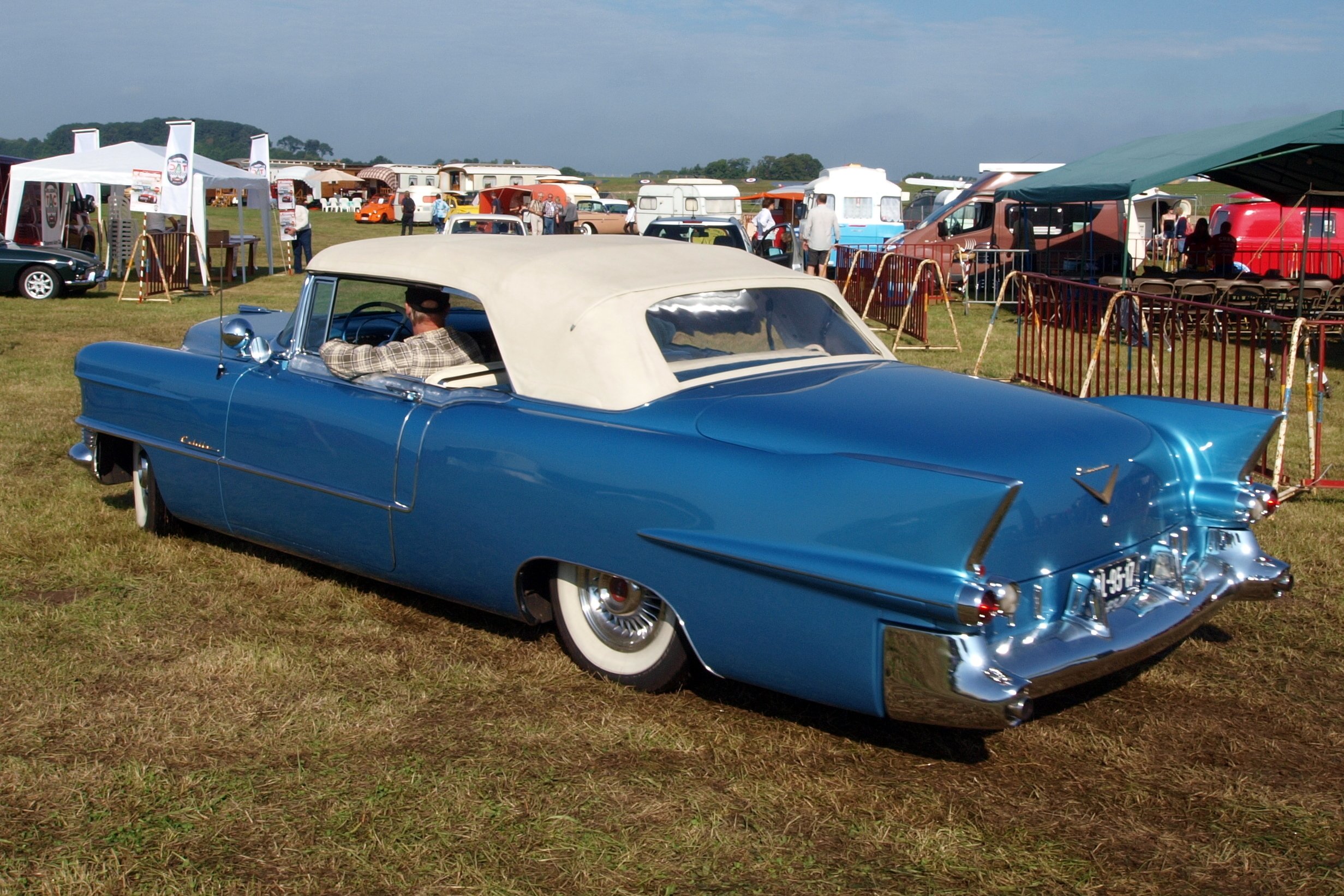 Photographed at The International Oldtimer Fly and Drive In 2010, Schaffen-Diest, Belgium.